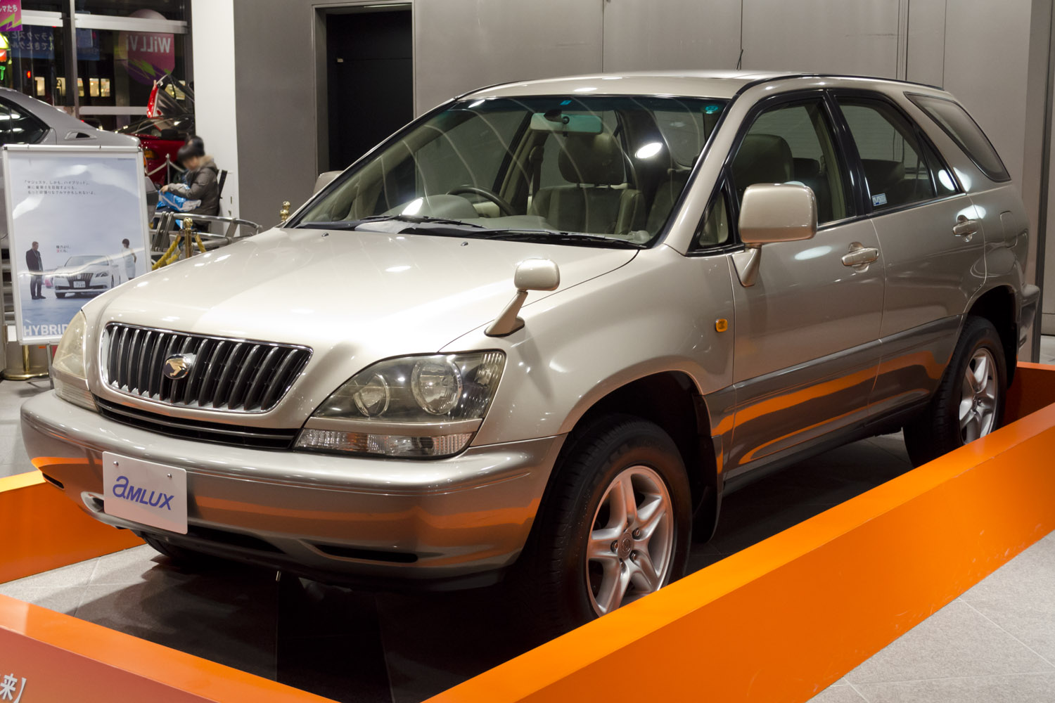 1st generation Toyota Harrier